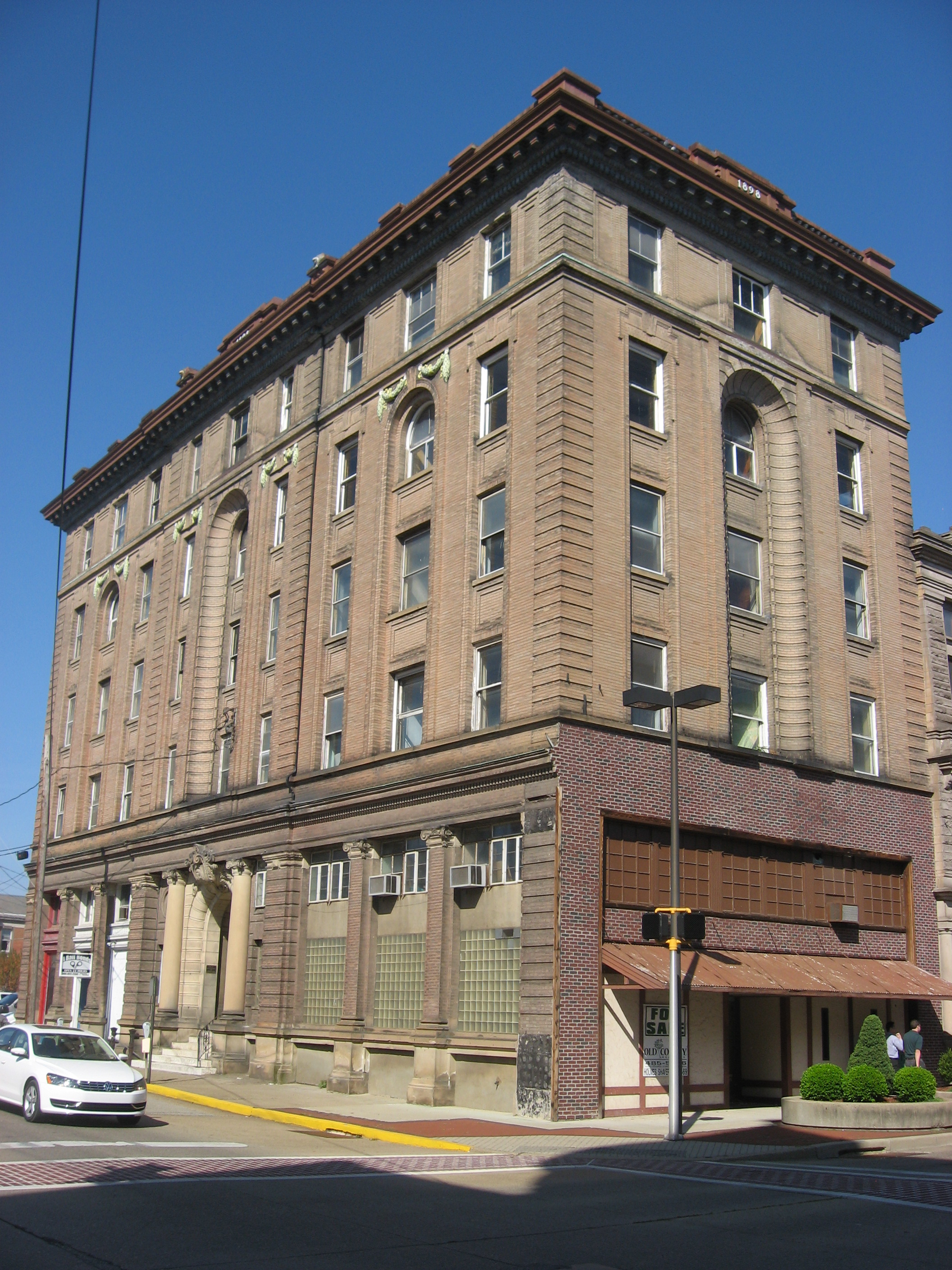 Front and western side of Citizens National Bank, located at 219 Fourth Street (West Virginia Route 14) in Parkersburg, West Virginia, United States. Built in 1898, it is listed on the National Register of Historic Places.